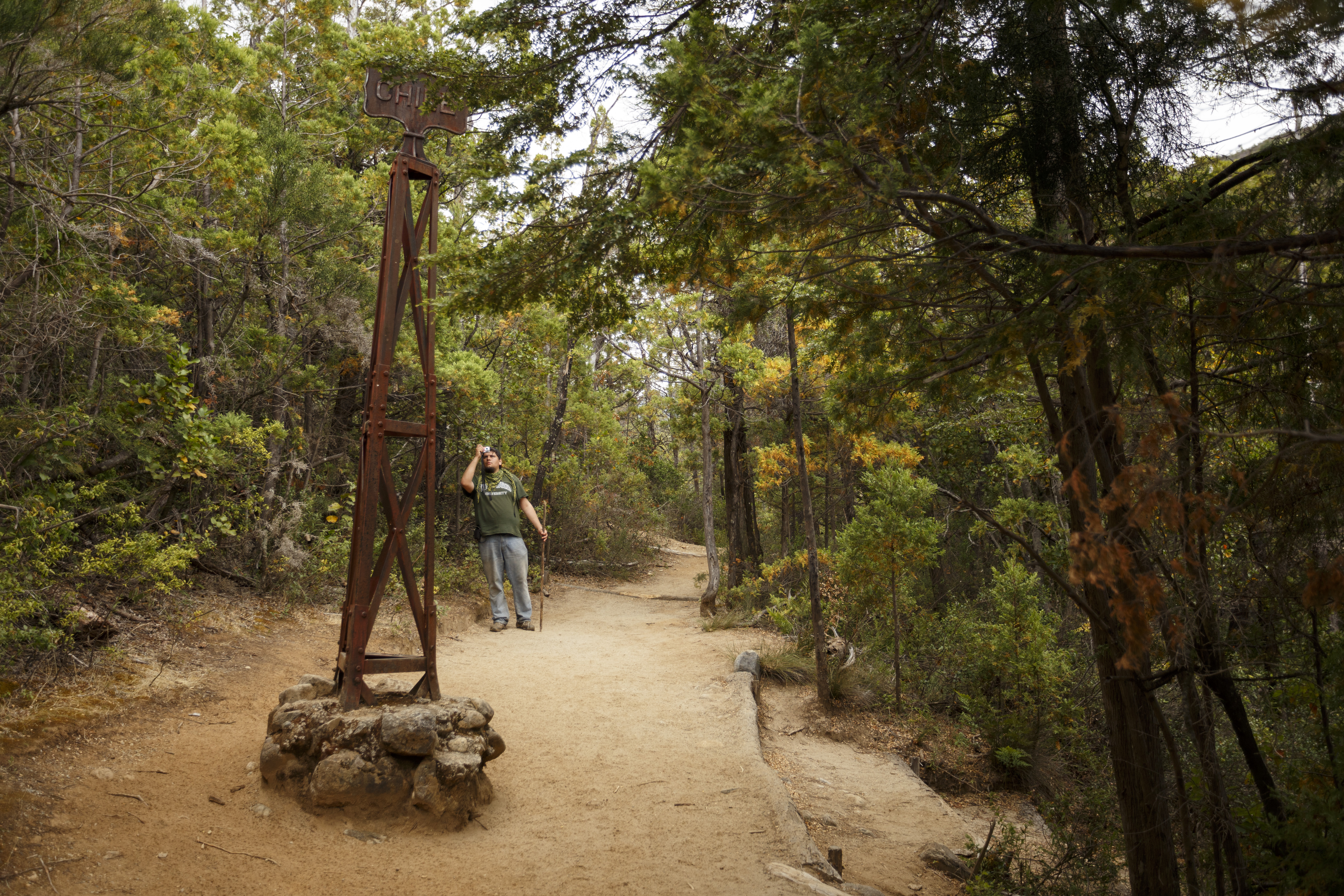 Hito fronterizo en Paso El Bolsón, en desembocadura de lago Puelo en lago Inferior.